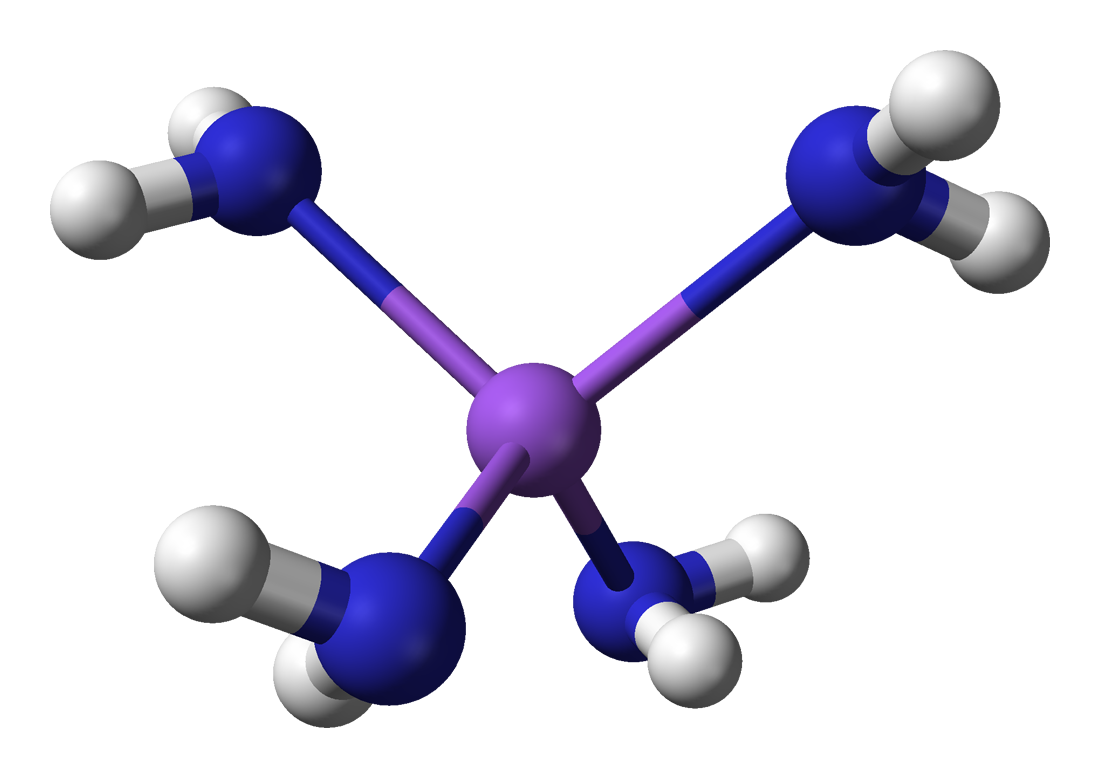 Ball-and-stick model of the coordination environment of sodium in the crystal structure of sodium amide, NaNH2. X-ray crystallographic data from Allan Zalkin and David H. Templeton (1956). "The Crystal Structure Of Sodium Amide". J. Phys. Chem. 60 (6): 821-823.